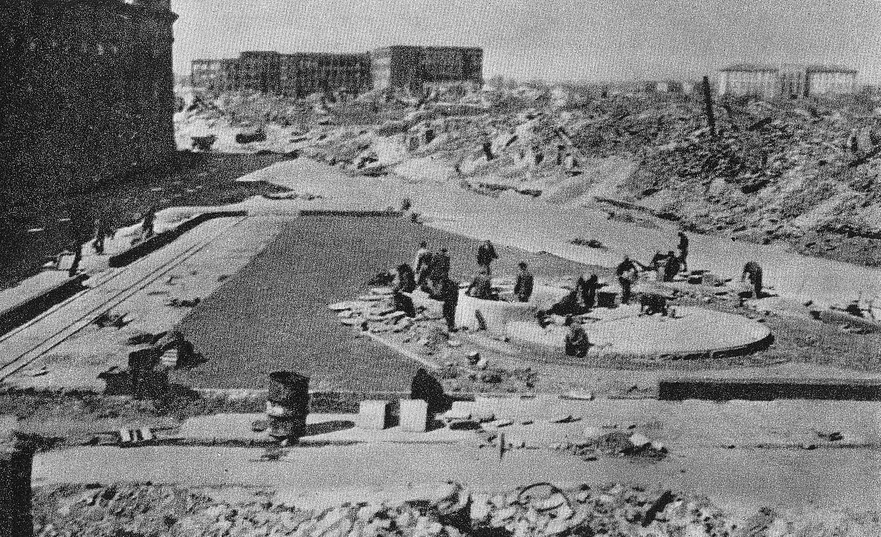 Construction of the first Warsaw Ghetto Heroes Monument in Warsaw